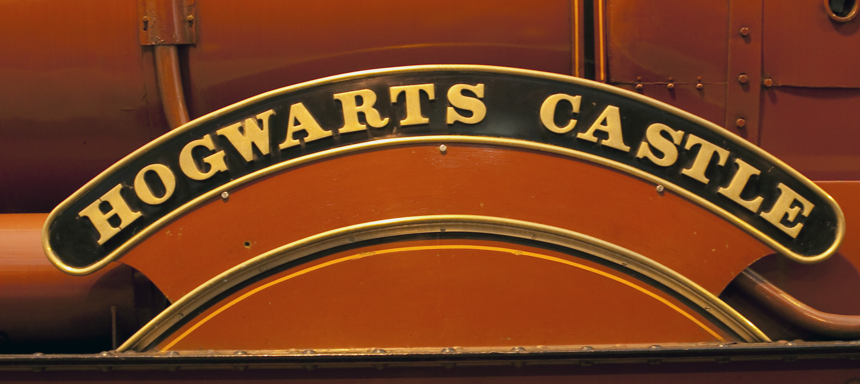 Hogwarts Express nameplate